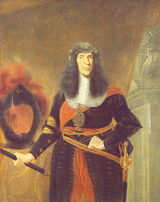 Portrait of John George II, Elector of Saxony (1613-1680)